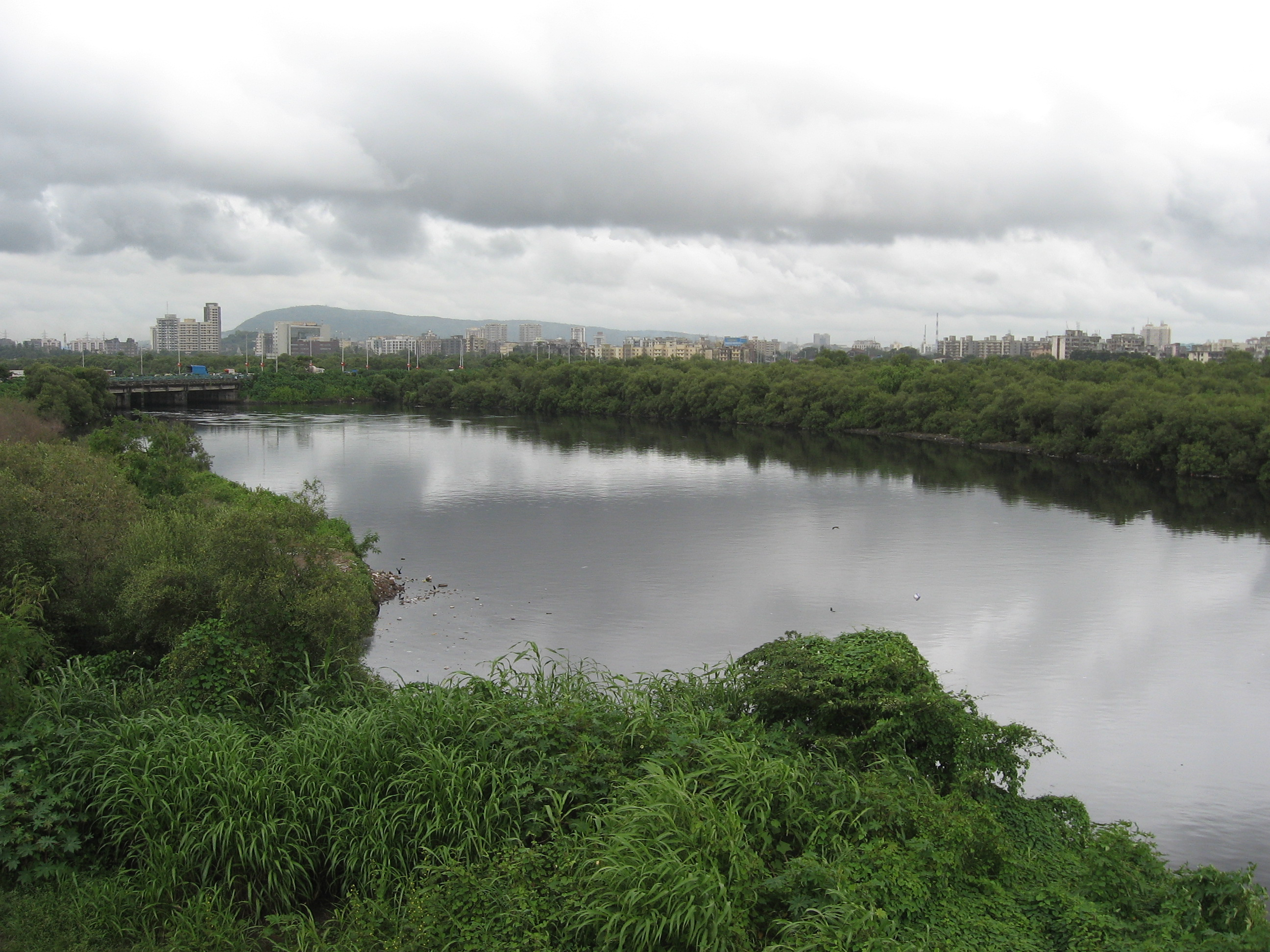 The River Mithi that separates suburban and city districts of Mumbai